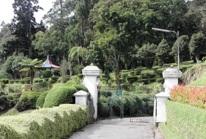 Iamge of Hakgala Botanical Garden